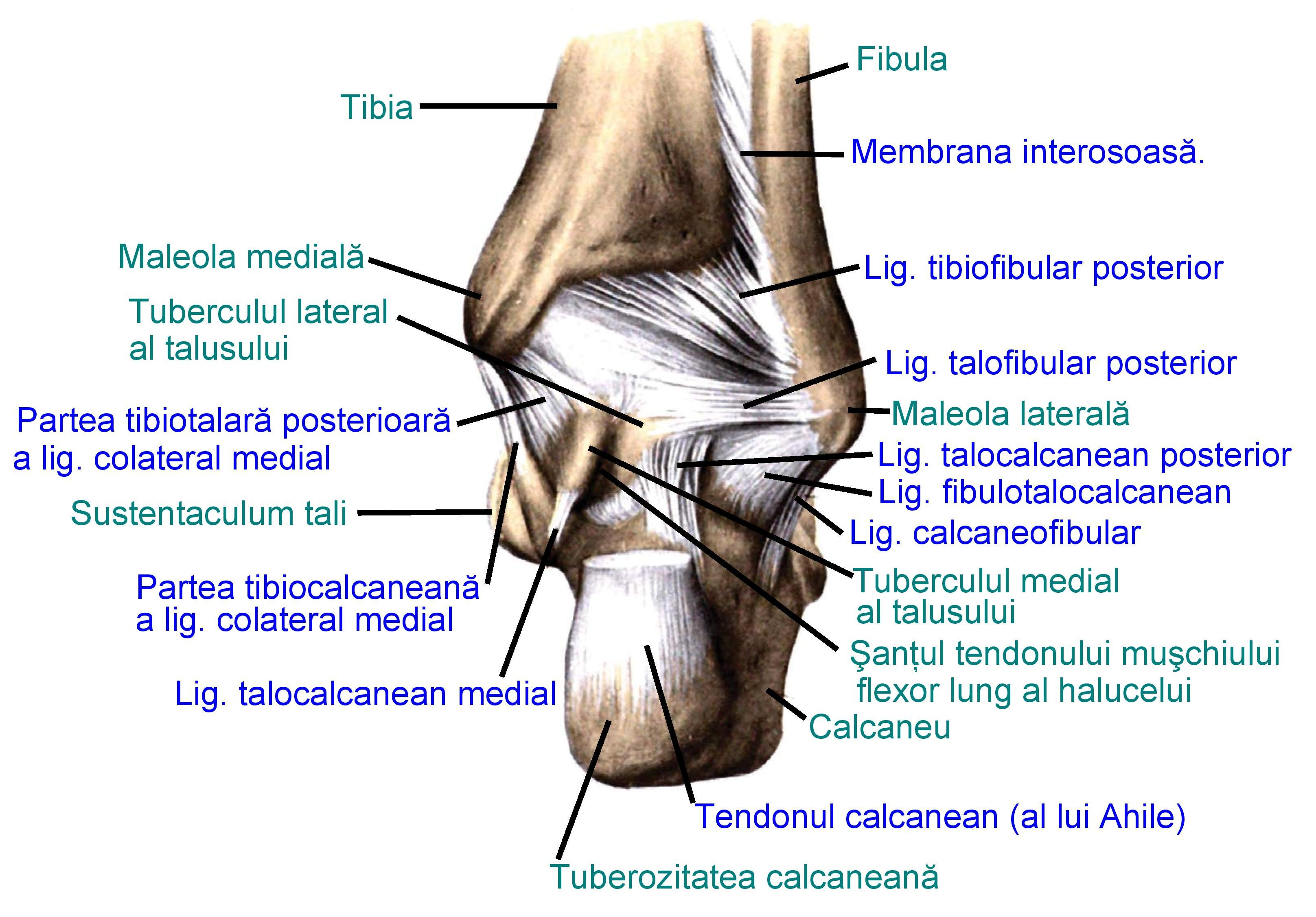 Ligaments of the posterior part of the foot